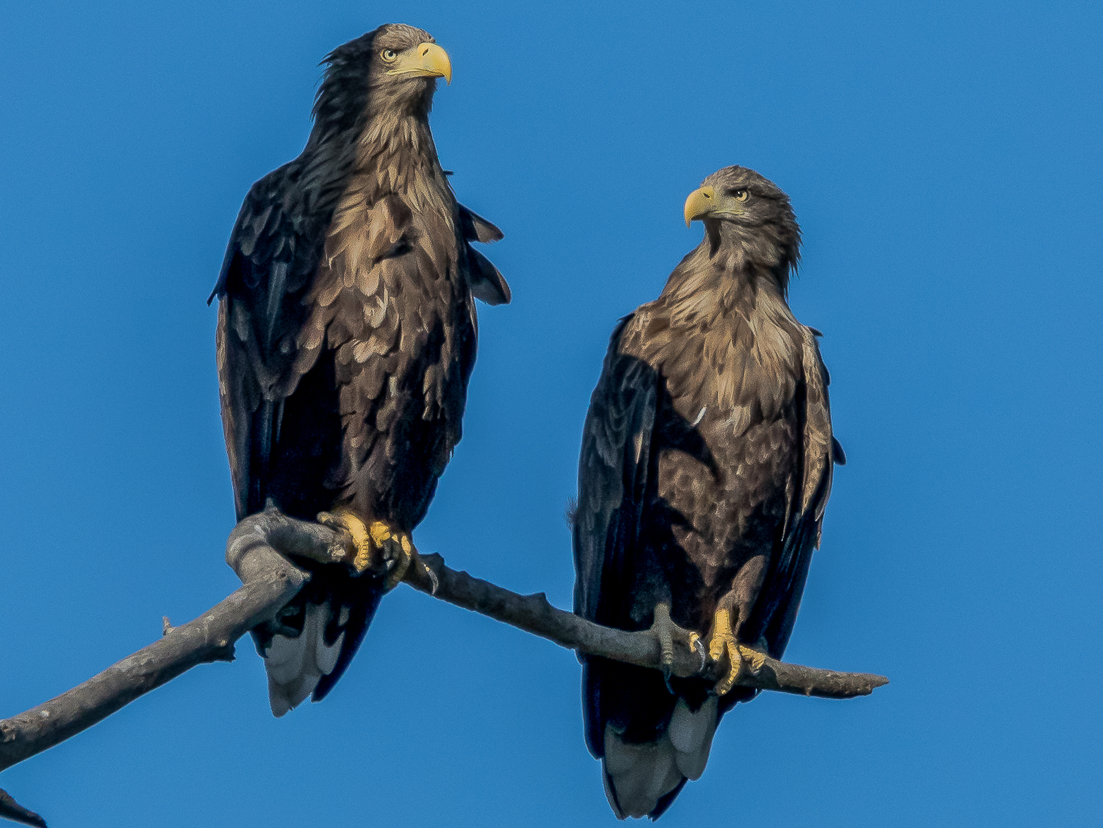 This is an image of the Biosphere Reserve or a Geopark: Astrakhan Nature Reserve